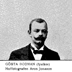 Gösta Bodman, 1875-1960, Swedish physicistst and polar explorer